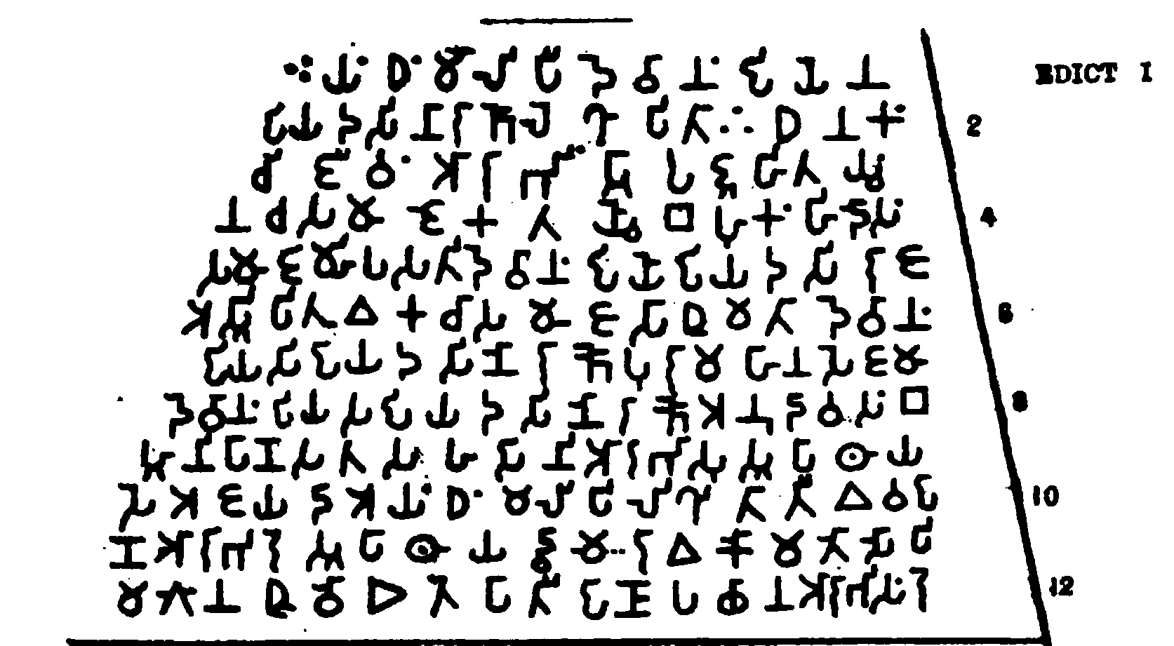 Girnar Major Rock Edict No1